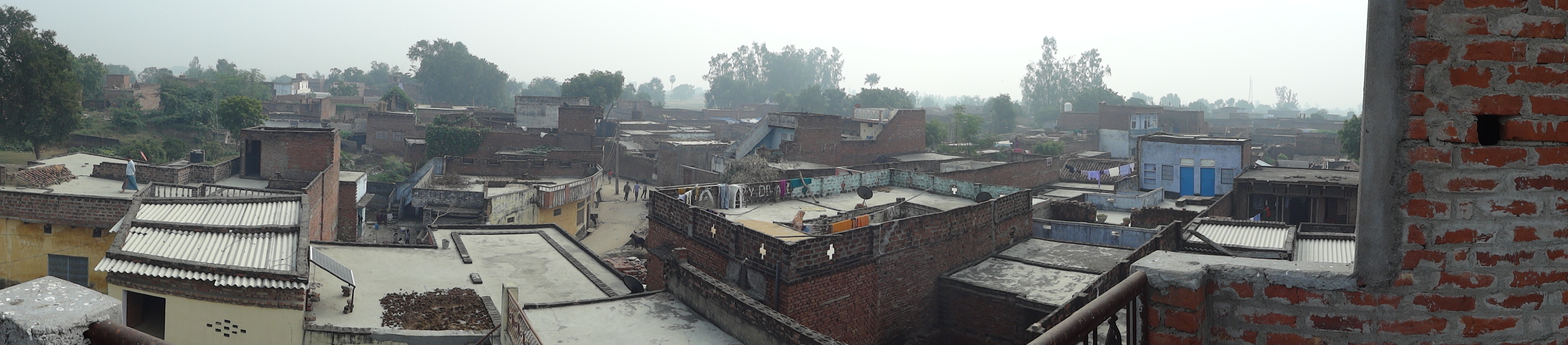 Describes the village locality.